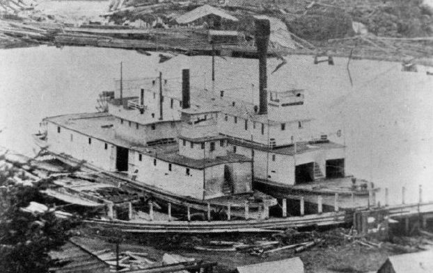 Sternwheelers Shoo Fly (on left) and Albany (right), at the boat basin at Oregon City, probably sometime between August 1870 and 1873.